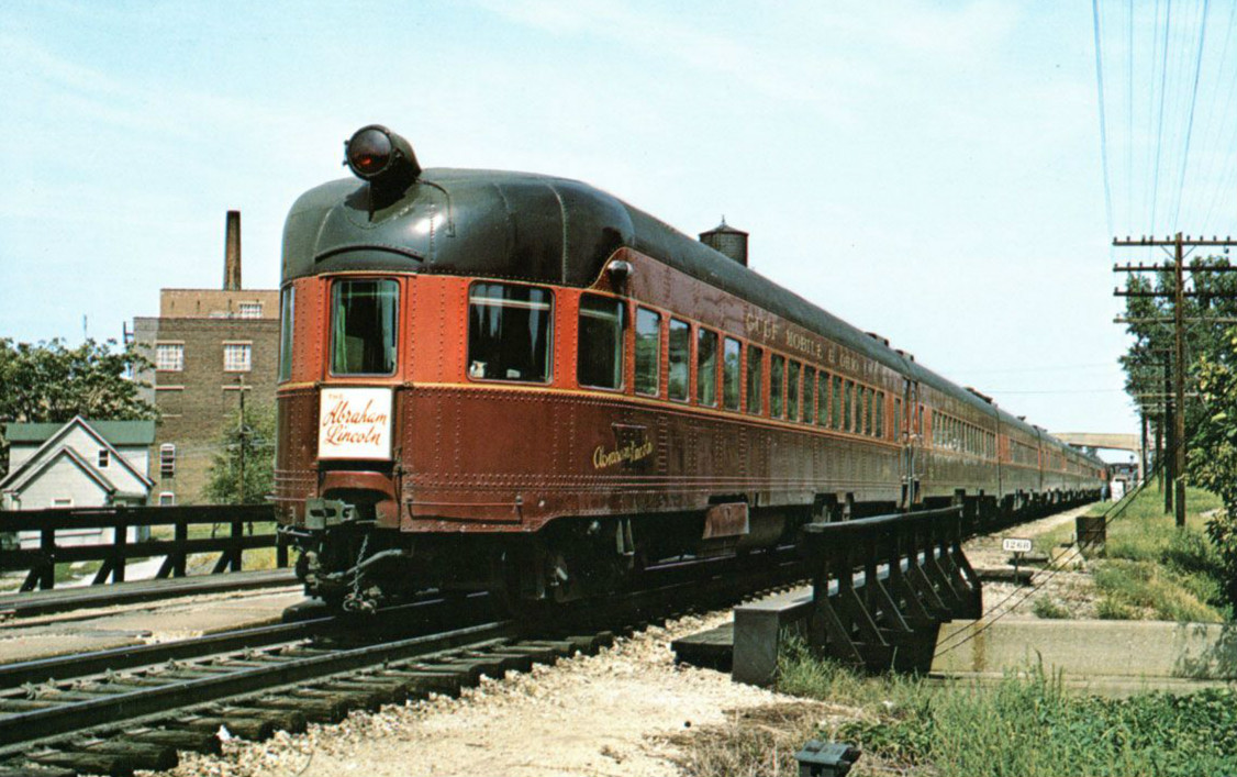 Postcard photo of the observation car of the Gulf, Mobile and Ohio Railroad's "Abraham Lincoln". The train was formerly with the Alton Railroad. In the foreground is parlor-observation car #5998, originally built in 1935 for the Royal Blue by American Car and Foundry.